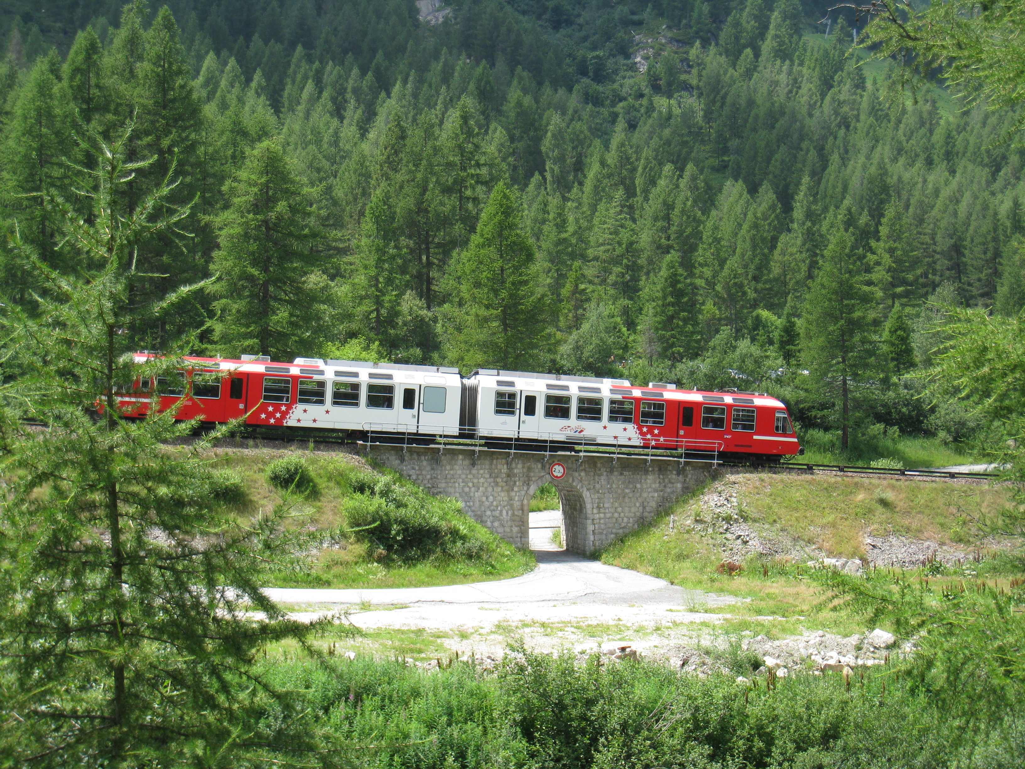 The Mont-Blanc Express running along the Ligne de Saint Gervais – Vallorcine near Chamonix, France.